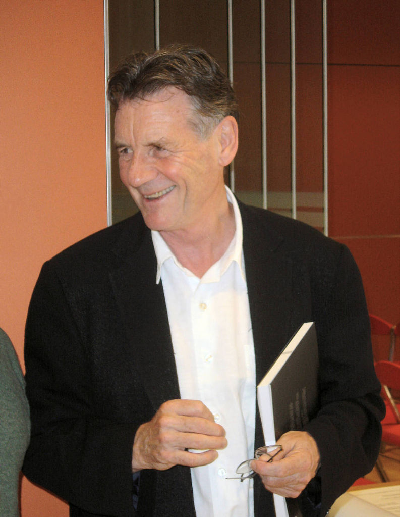 Actor/writer Michael Palin in Trento, Italy